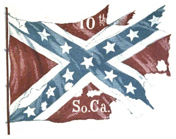 This flag was preserved as follows: At Bentonsville, Color Sergeant Meyers and a part of the Regiment were cut off in the rear of the enemy's line. The Staff was thrown away, and the Flag concealed by Sergeant Meyers on his person The party escaped, and saved the Flag. The Flag of the 10th Regiment was used as the Colors of the 10th and 19th Regiments consolidated and was surrendered. Captain Harllee preserved this Flag, and presented it to Colonel Walker, after the surrender of the Army. Feeling that so priceless a relic was not safe in private hands. Colonel Walker, June 12th, 1875, with the consent of all the Company Commanders, placed it in the keeping of the Carolina Rifle Club, of Charleston, of which he was then the Commander.